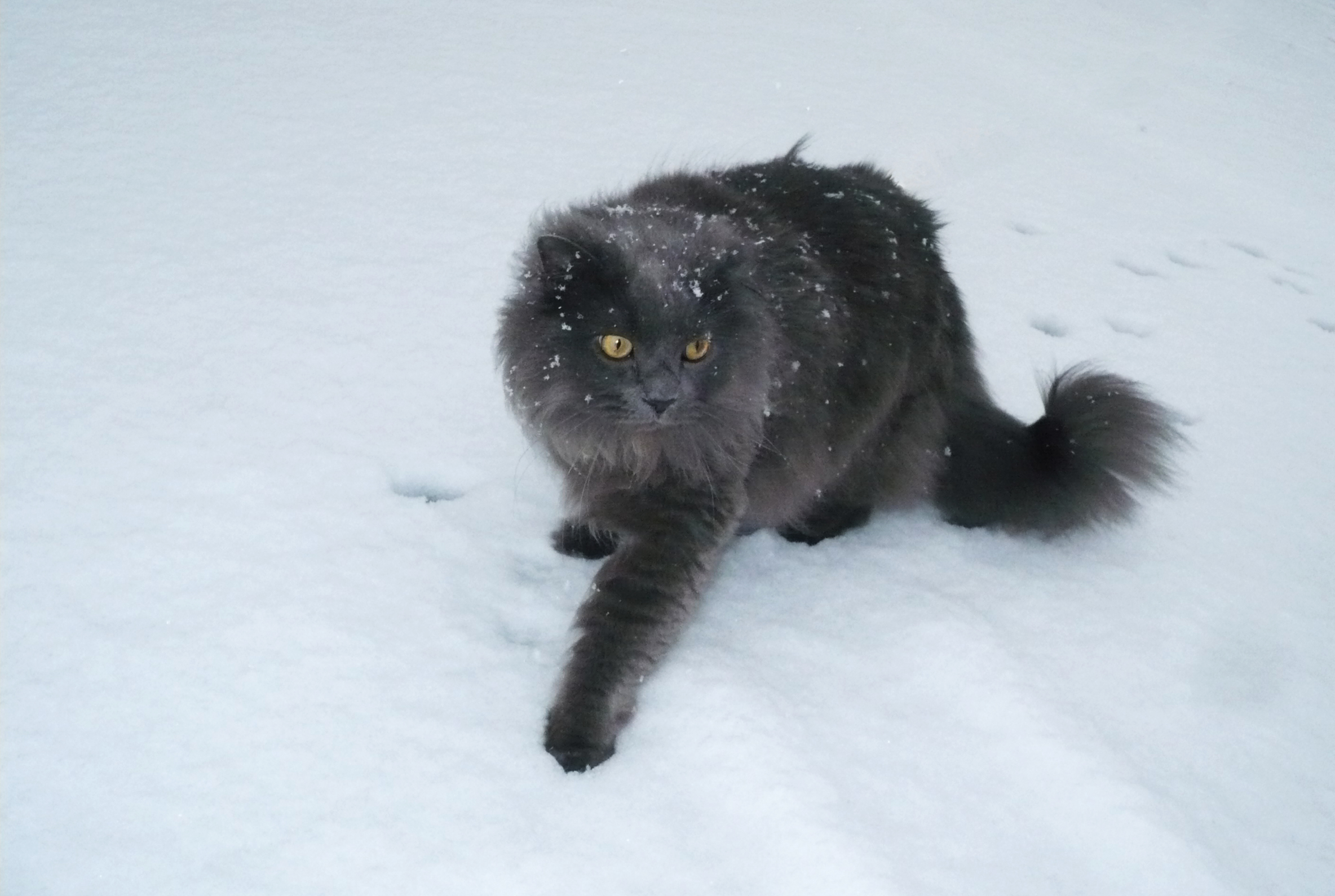 Photograph of a Tiffany cat called Kumori (曇). Tsukuba, Japan.